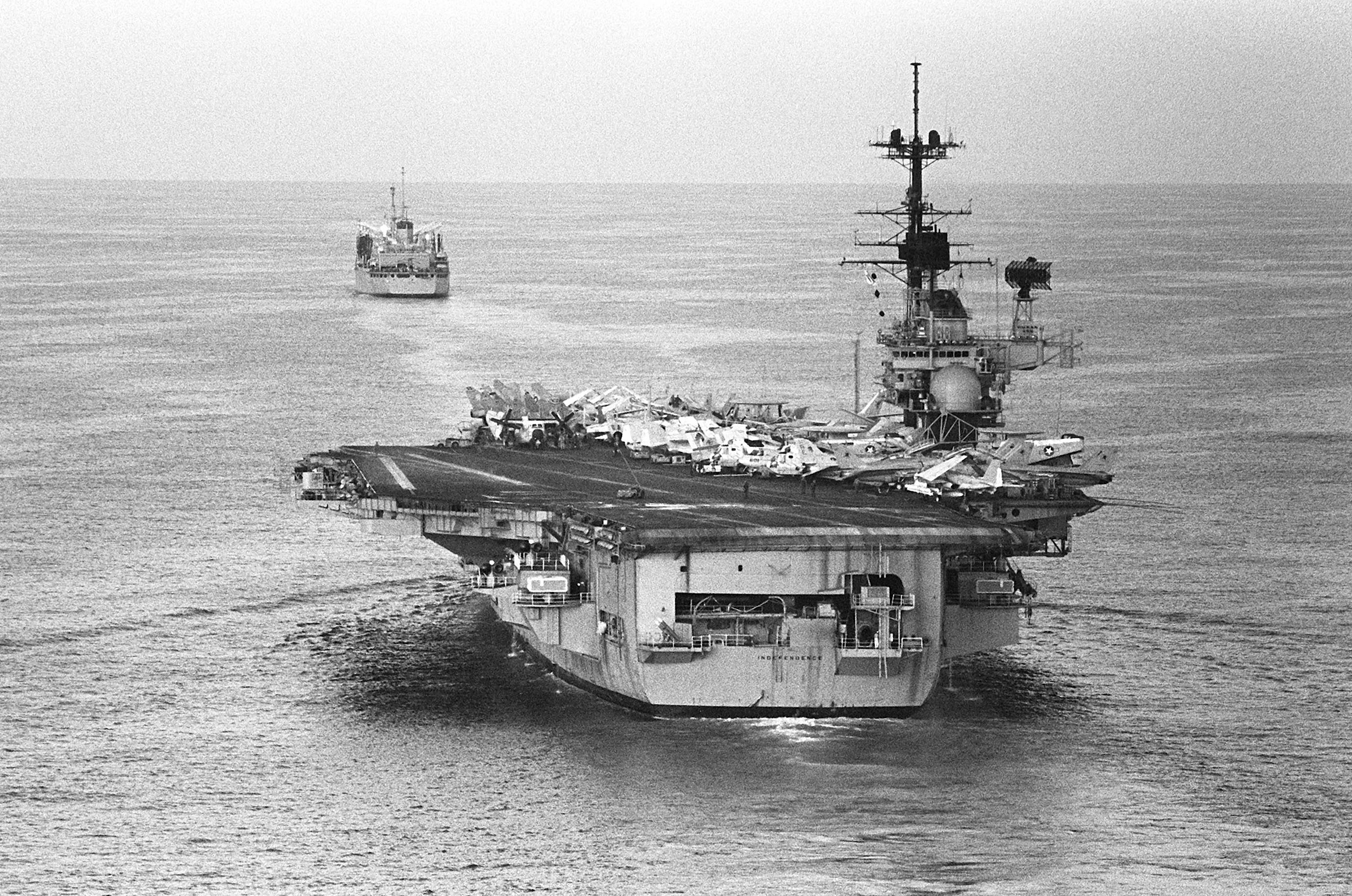 The U.S. Navy aircraft carrier USS Independence (CV-62) and a Wichtita-class fleet replenishment oiler operating off Beirut, Lebanon, 8 December 1983. The Independence, with assigned Carrier Air Wing 6 (CVW-6) was deployed to the Mediterranean Sea from 18 October 1983 to 11 April 1984.